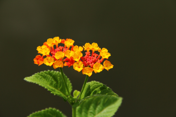 Photo place: University town of Guangzhou, China Common name: big sage, wild sage, red sage, white sage, tickberry